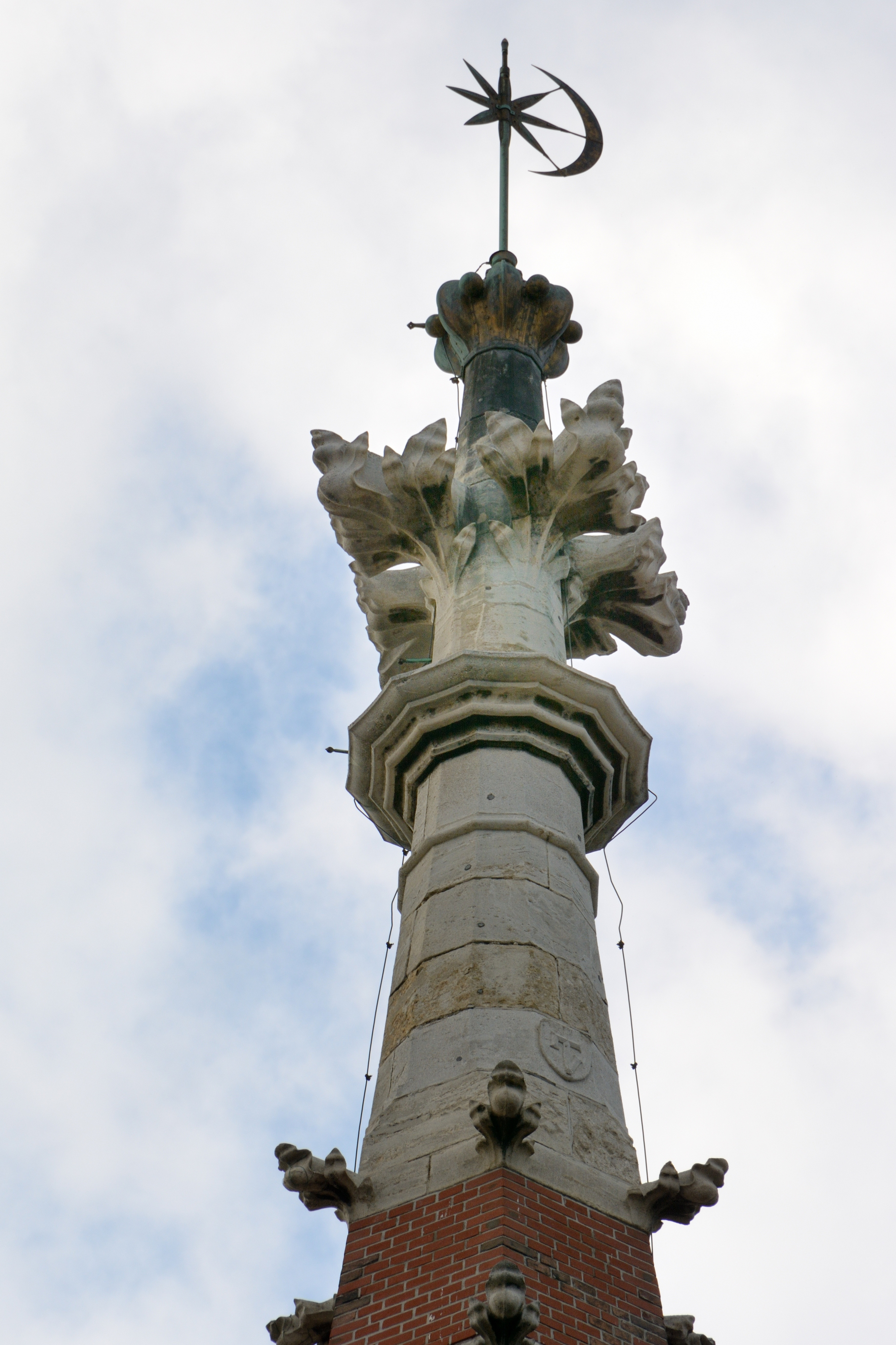 Steeple of the catholic church St. Othmar unter den Weißgerbern, Vienna, 3rd district